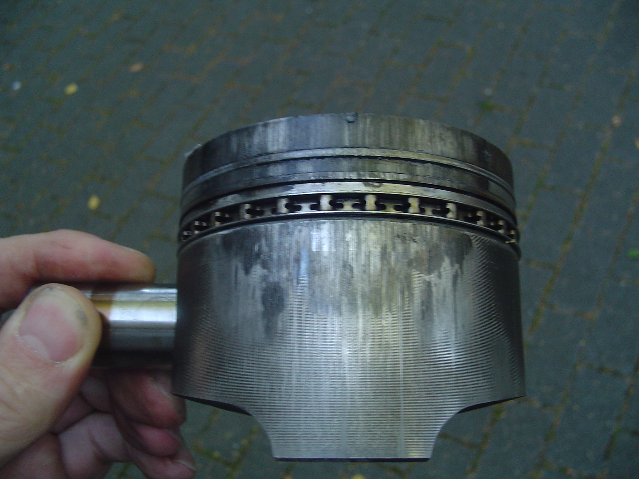 jammed piston from 1600 ccm air-cooled Volkswagen engine